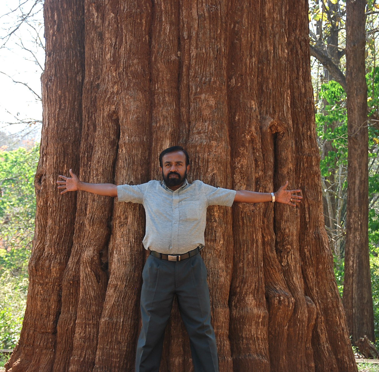 Kannimara Teak